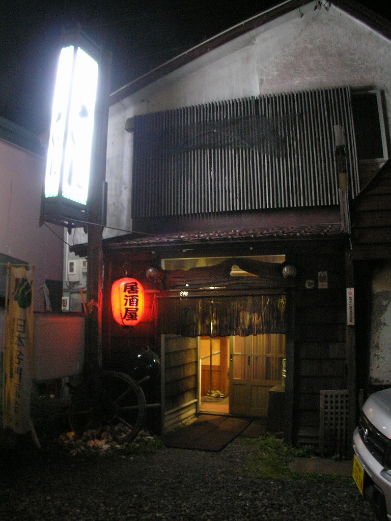 Izakaya,wakkanai,hokkaido